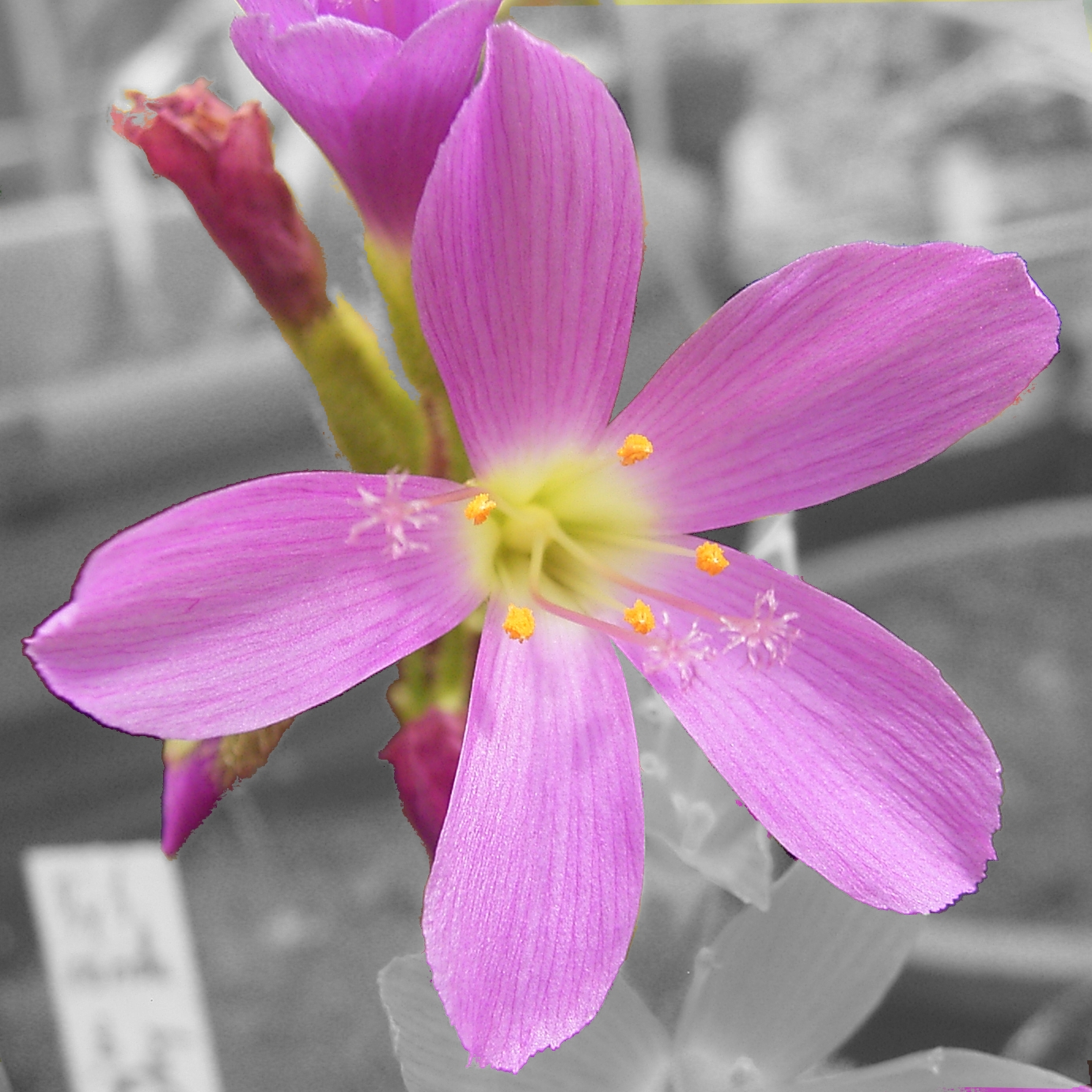 Flower of Drosera regia